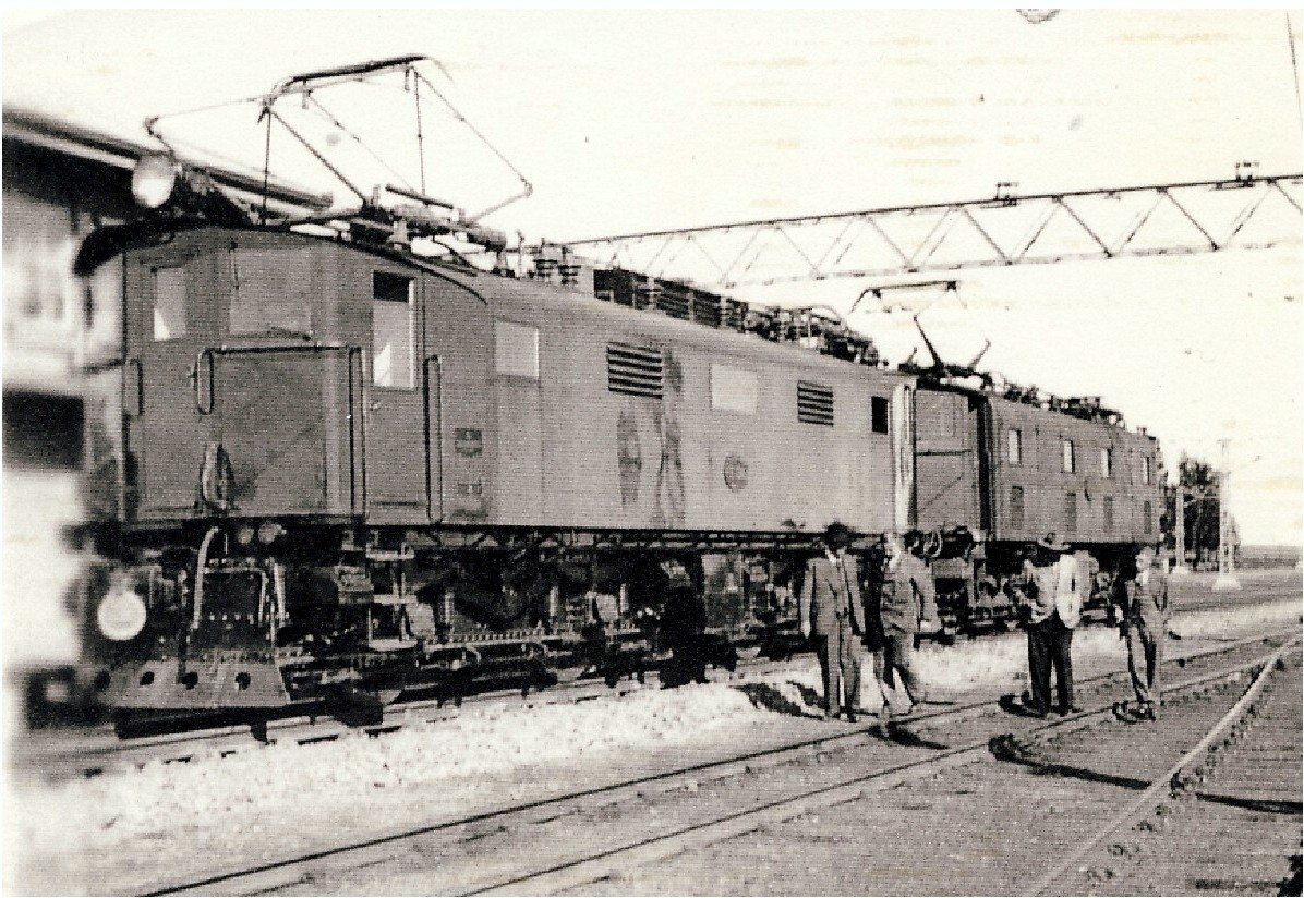 SAR Class 2E, running consisted to a Class 1E